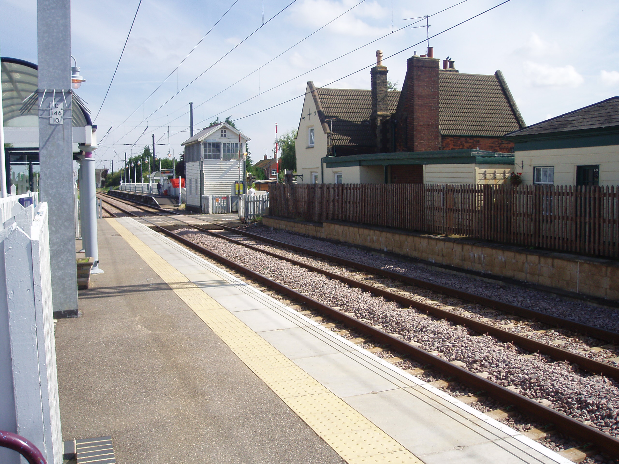 Watlington Railway Station, between King's Lynn and Downham Market on the Fen Line in Norfolk, England. The original southbound station buildings, now converted into a private residence, can be seen on the right (near the camera). The modern platform can be seen past the signal box across the road. Taken by me 2007, for the Wikipedia article of the same name.